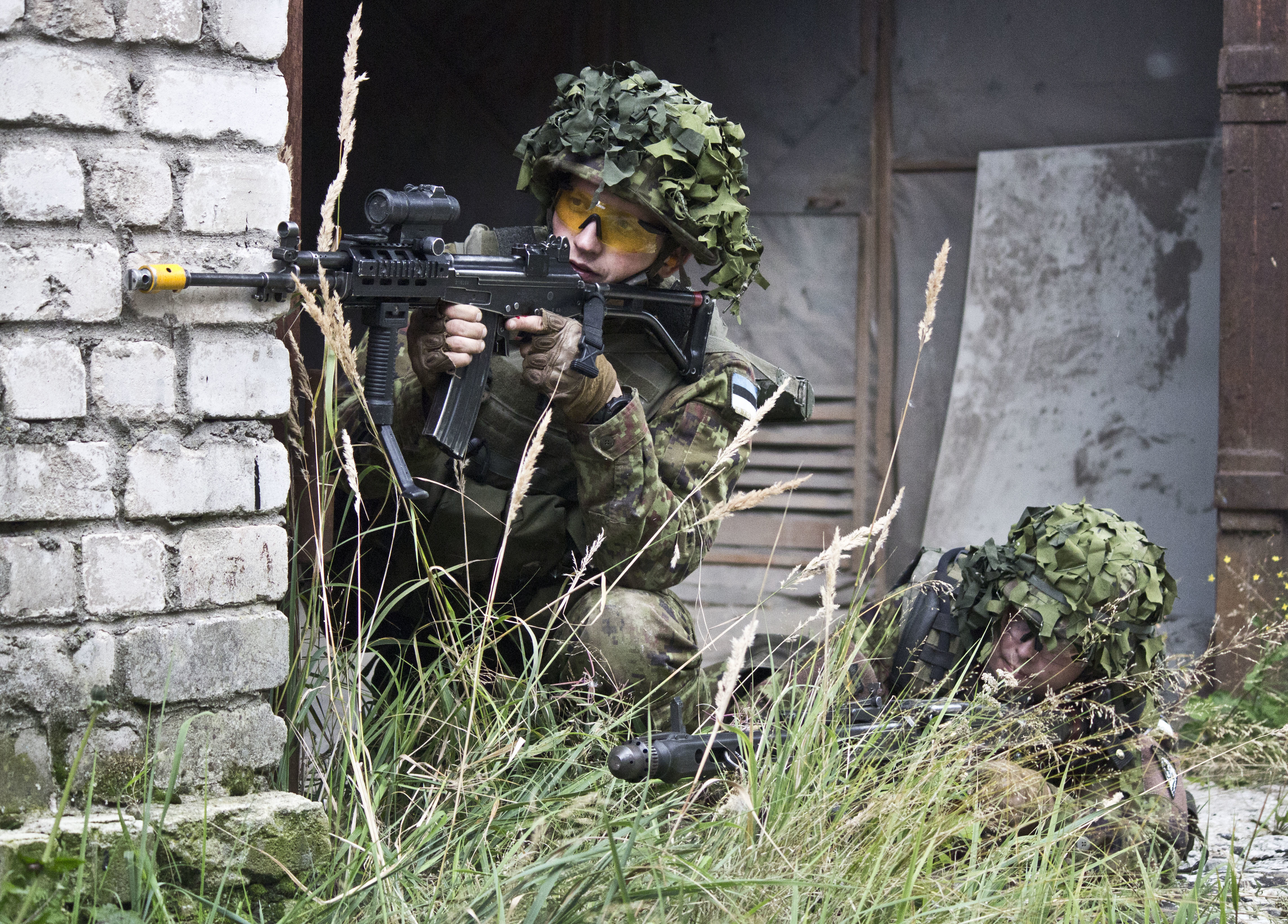 Estonian Defense Forces soldiers from Company C, Single Scouts Infantry Battalion provide covering fire during a Sep. 4 night raid training mission rehearsal at Murru Vangra, an abandoned prison in Rummu, Estonia. The raid was part of Steadfast Javelin II, a NATO exercise involving more than 2,000 troops from nine nations conducting various training missions across Estonia, Germany, Latvia, Lithuania and Poland. The exercise focuses on increasing interoperability and synchronizing complex operations between allied air and ground forces through airborne and air assault missions.